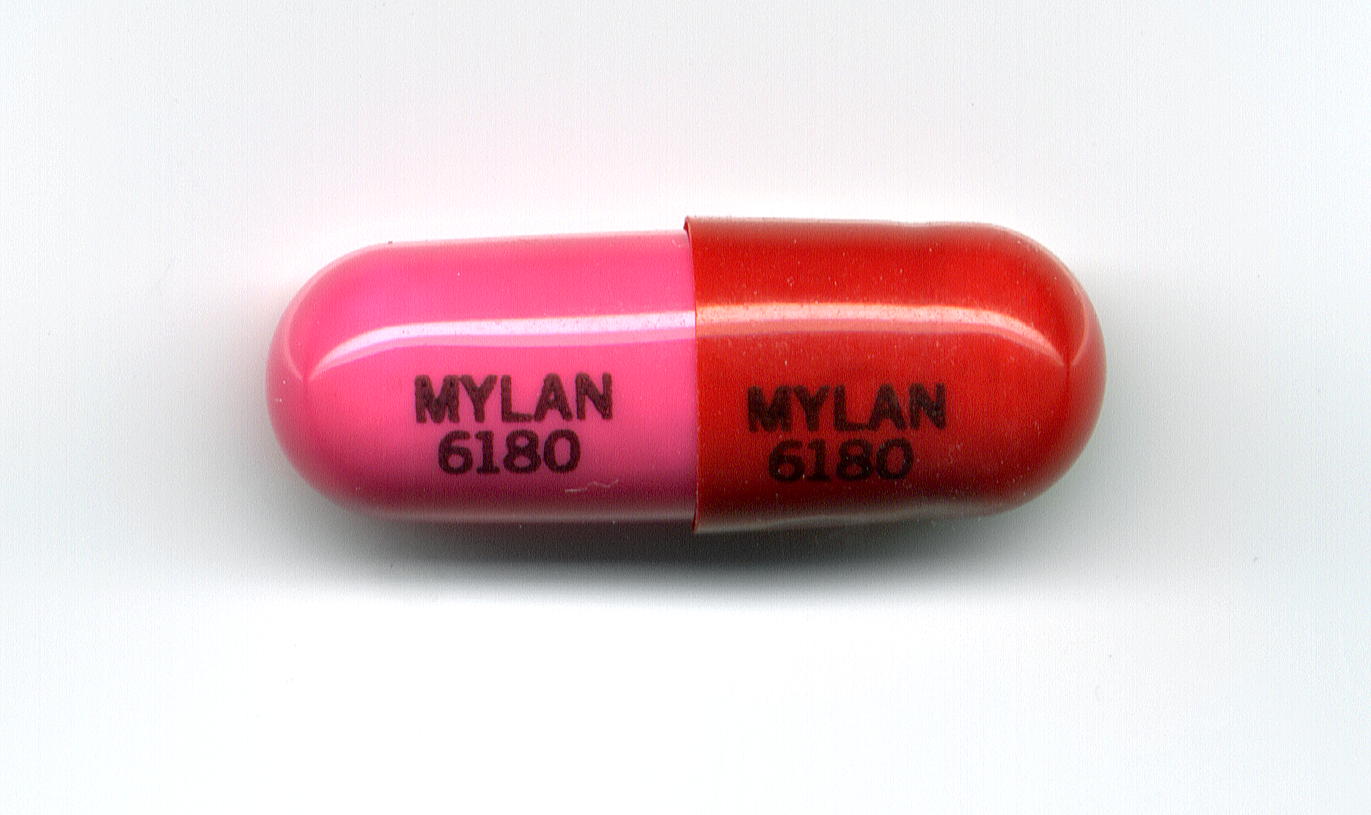 An 80mg capsule of Propranolol